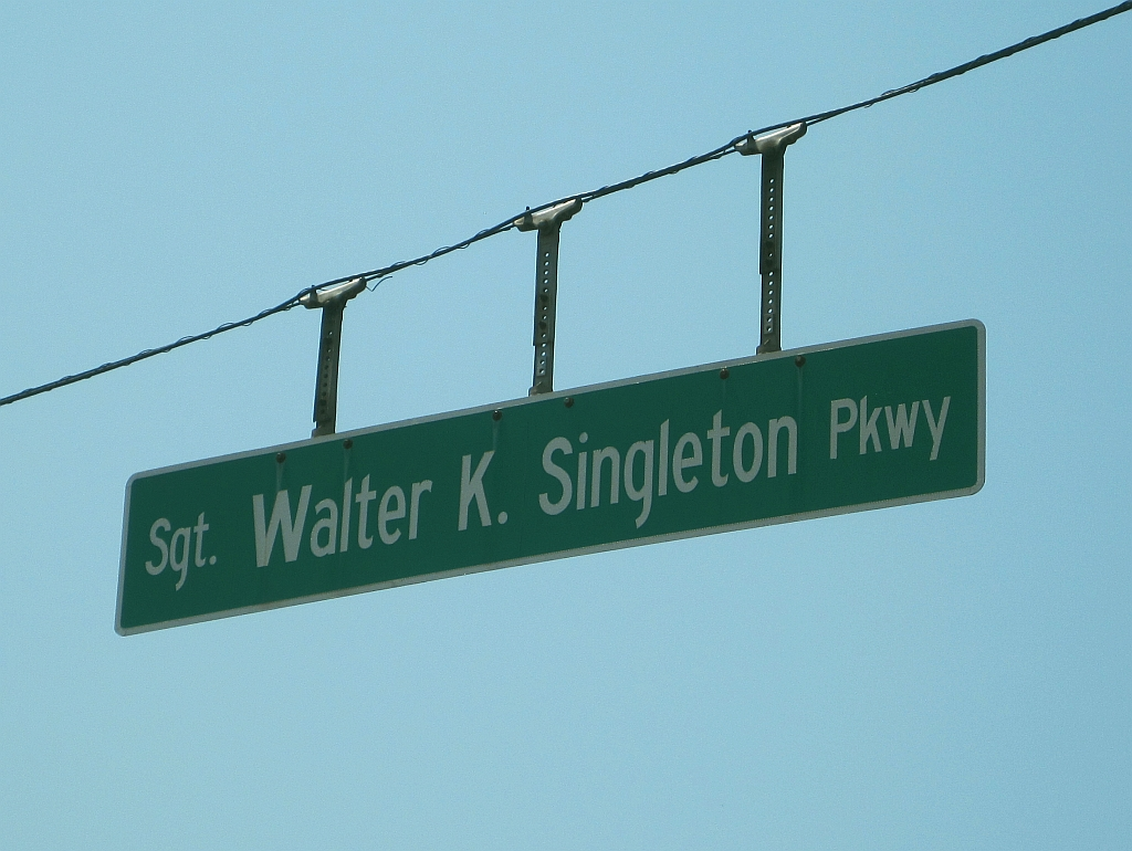 Sgt. Walter K. Singleton Parkway starts at New Covington Pike in Raleigh, Memphis and terminates at the Naval Support activity Mid-South in Millington, Tennessee